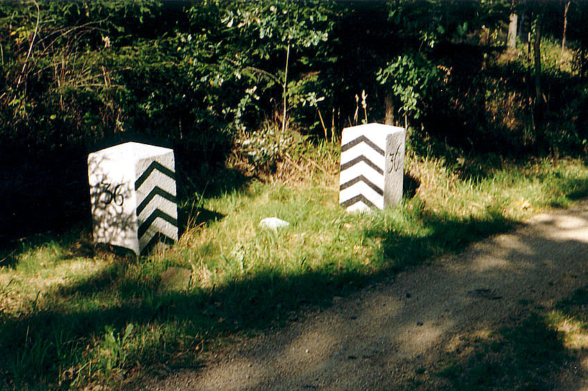 Border stones at the former border between Saxony and Prussia near Reichenbach, Germany.